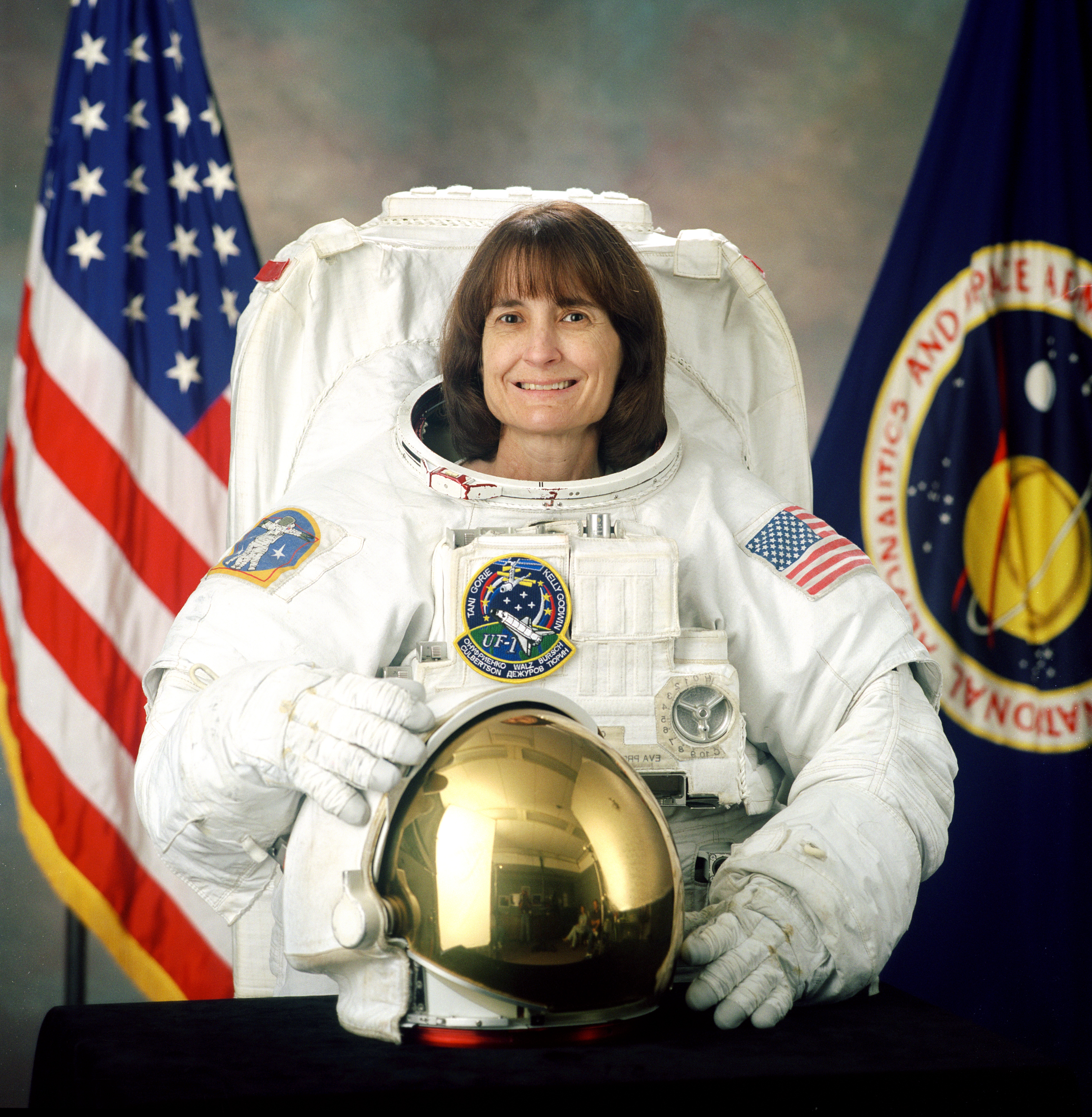 portrait astronaut Linda Godwin